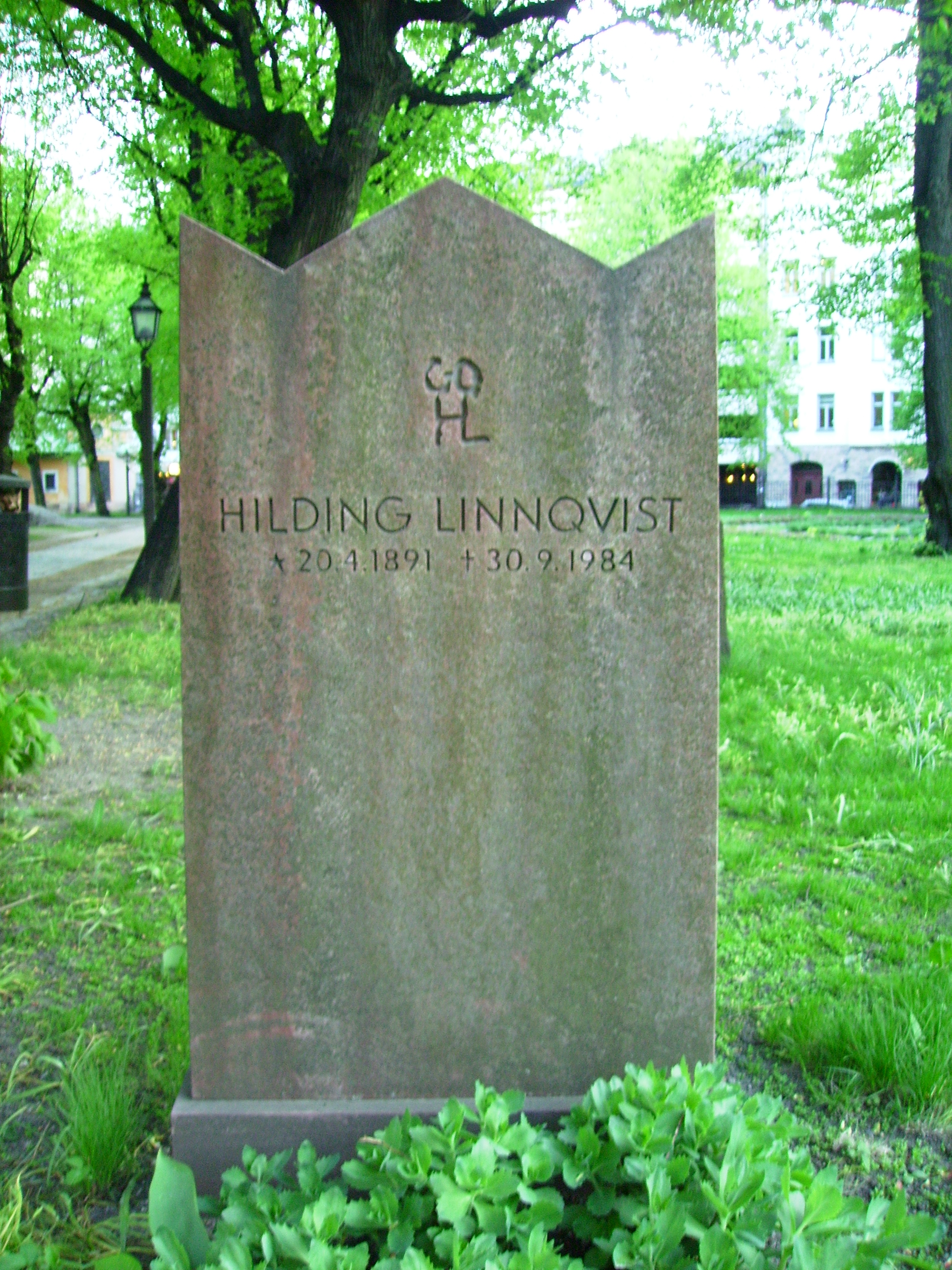 Picture of Hilding Linnqvists grave at Maria churchyard Stockholm